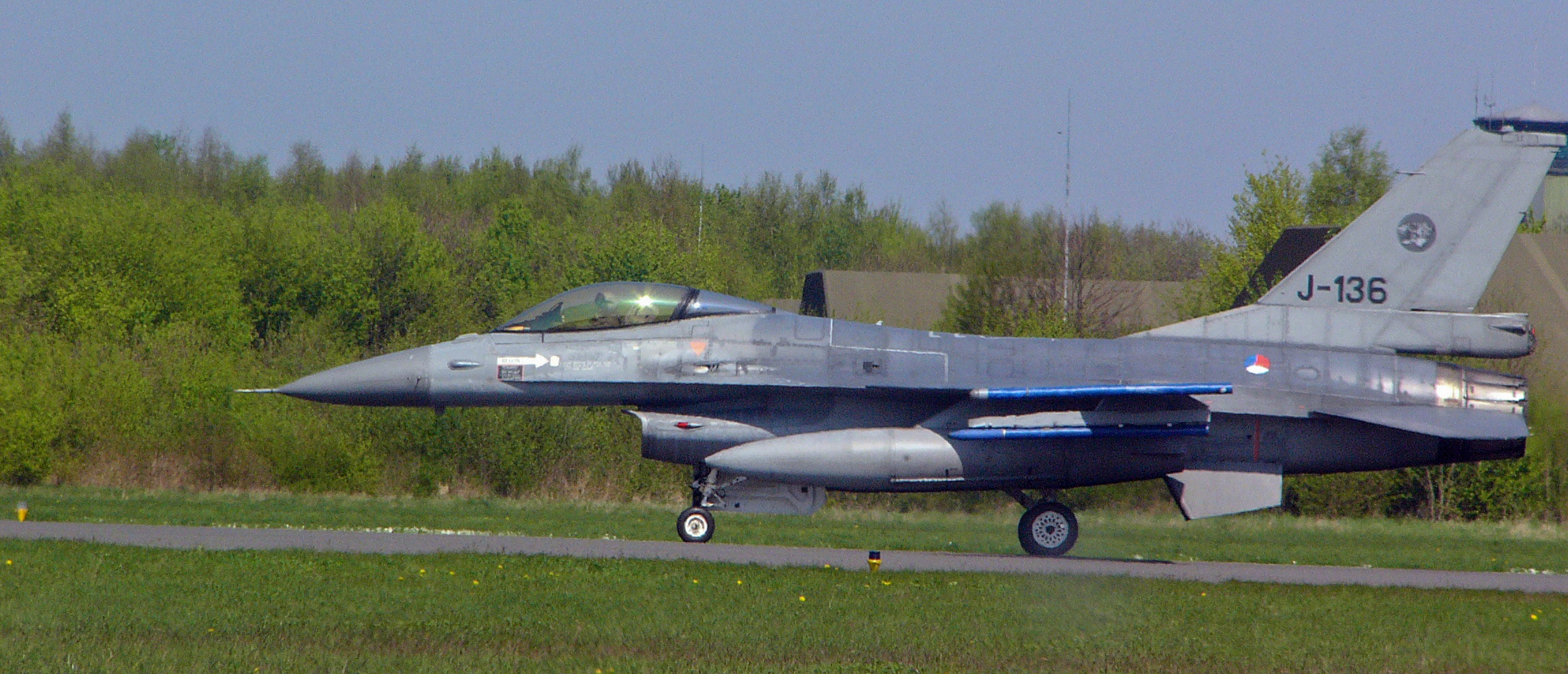 Waiting for tower clearance, ready for another flight, Viper passing by. Panasonic DMC-FZ10